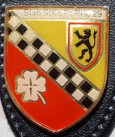 Staff & HQ Comapany 29th Armored Brigade